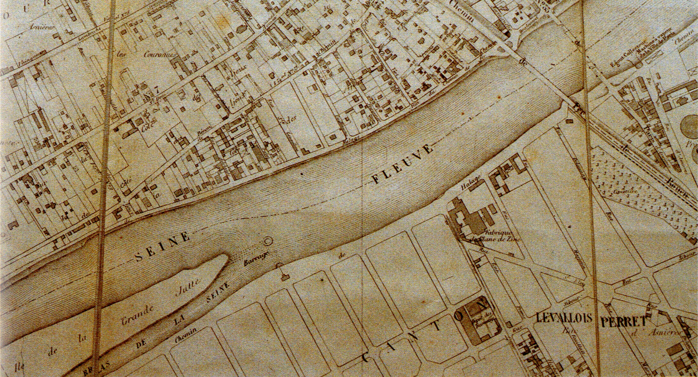 Map of Courbevoie